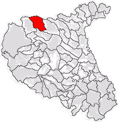 Limits of the Commune of Câmpuri